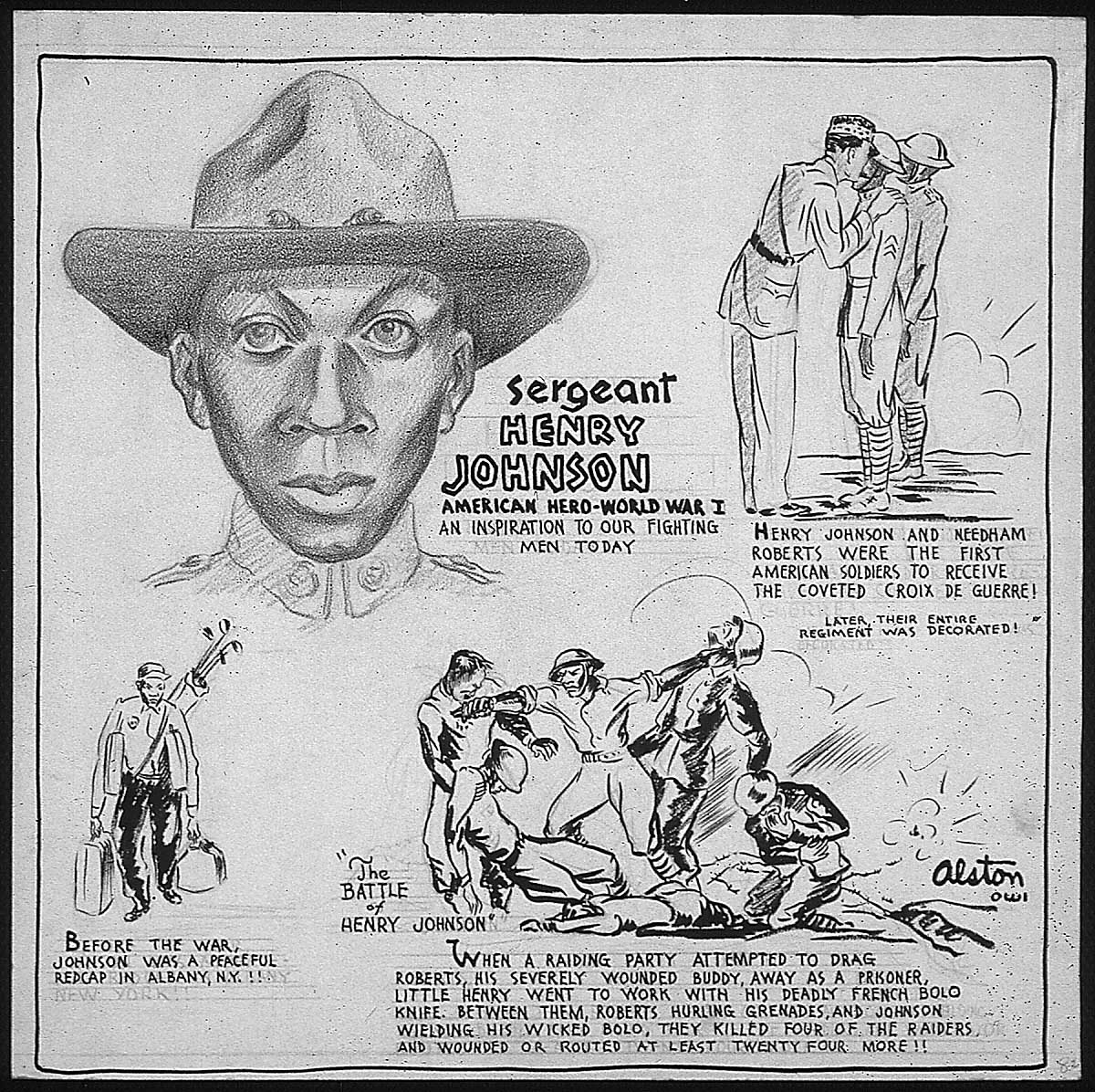 Henry Johnson biographical cartoon drawn by Charles Alston in 1943 source